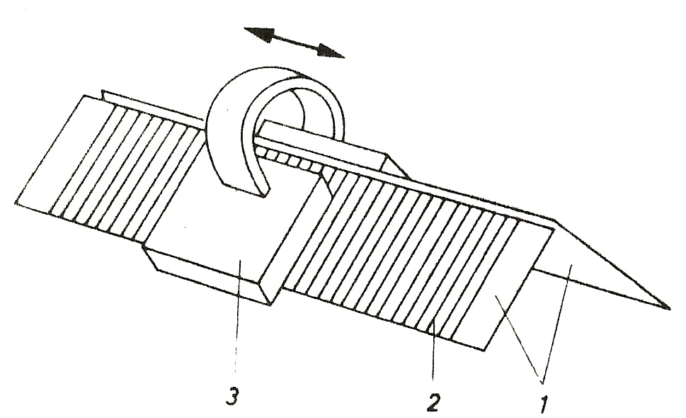 Needle beds and cam-carriage on V-bed flat knitting machine. 1, 2: needle beds, 3: cam-carriage